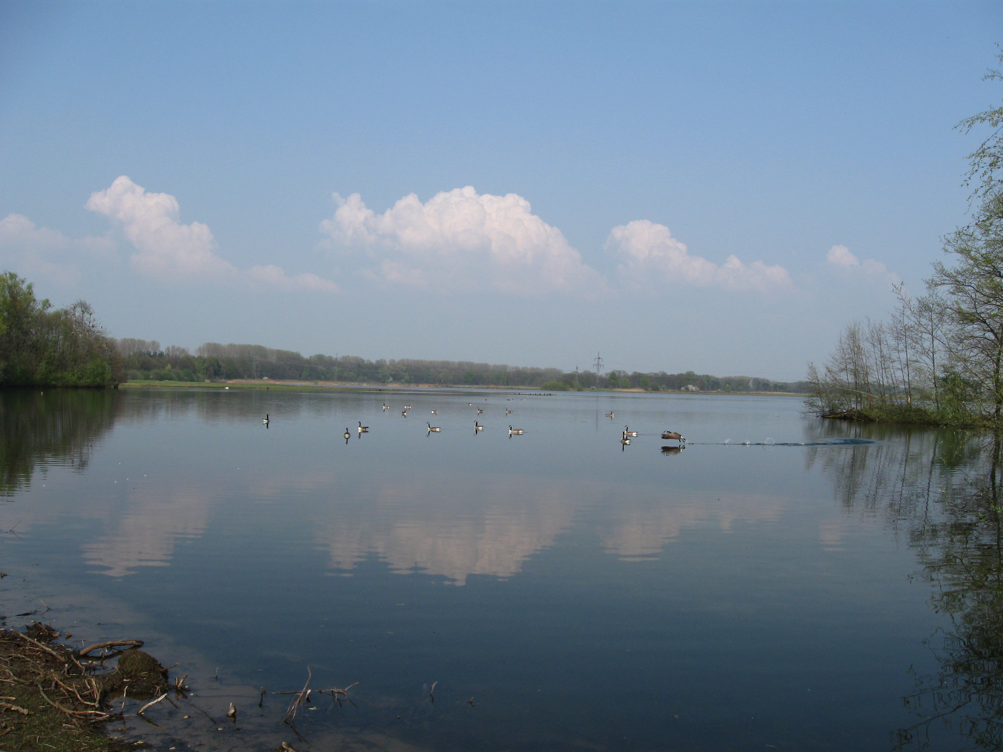 Nature reserve Zachariassee , Germany Nordrhein-Westfalen Lippstadt